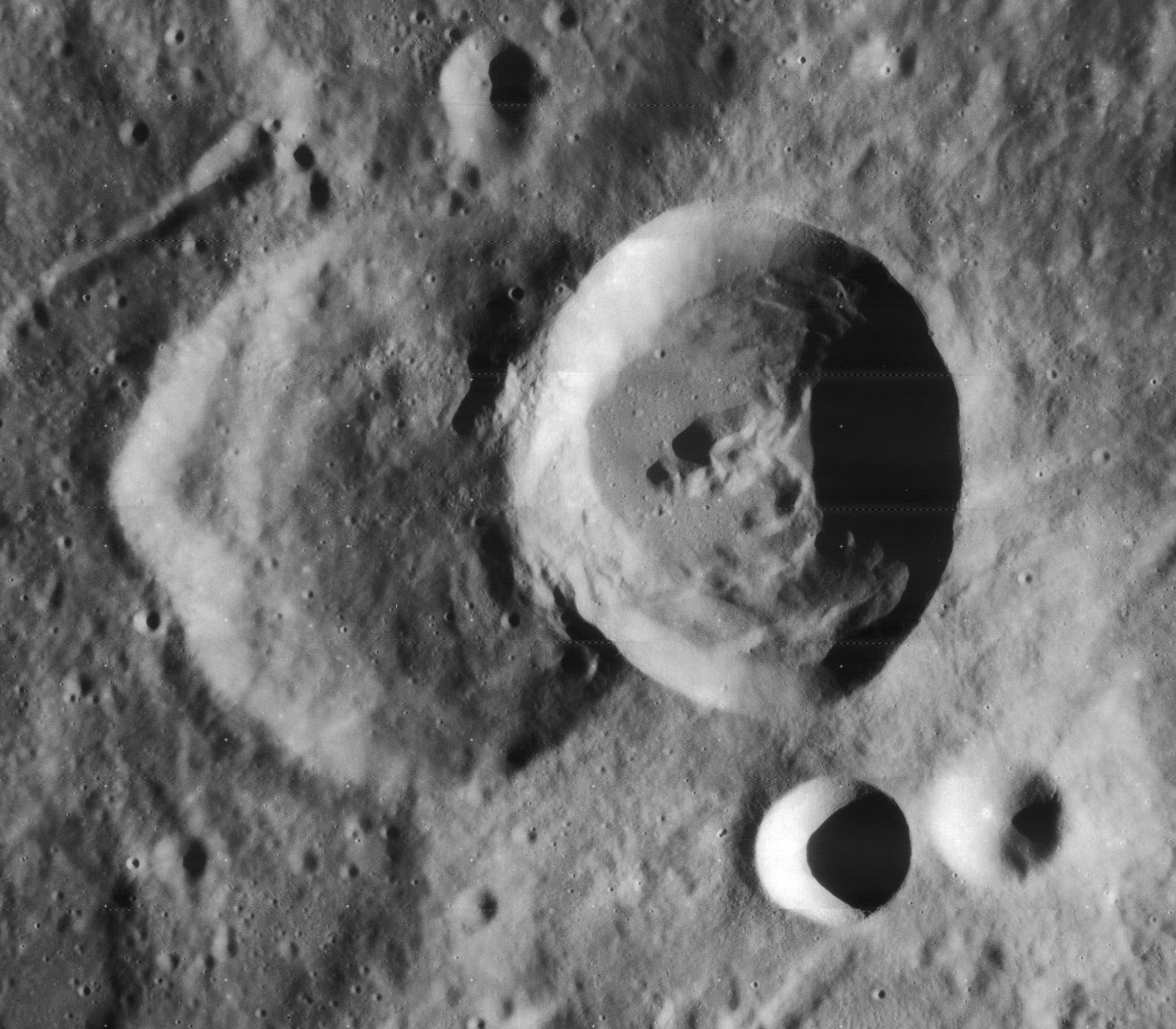 Sirsalis (right of center), with Sirsalis A (left of center) and Sirsalis F and J (lower right), on the moon.